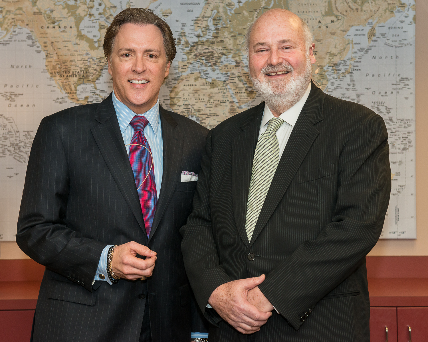 Actor/director/activist/businessman Rob Reiner (right) poses with ABC 7 news anchor Dan Ashley before they head to the stage of The Commonwealth Club of California. Feb. 1, 2013, photo by Ed Ritger.